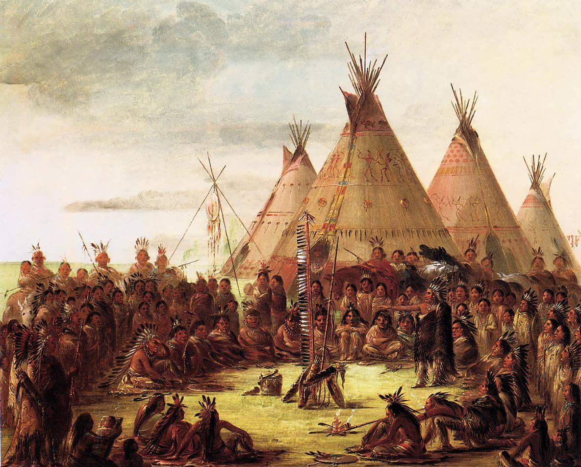 Sioux War Council